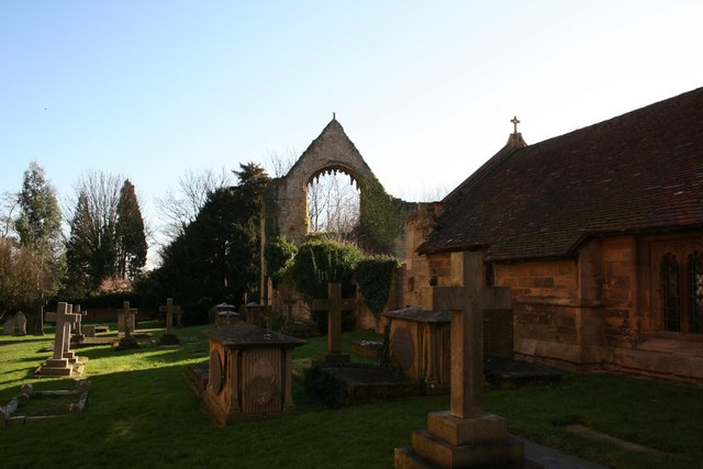 Palace ruins The ruins of the Archbishop's Palace seen from the minster yard.